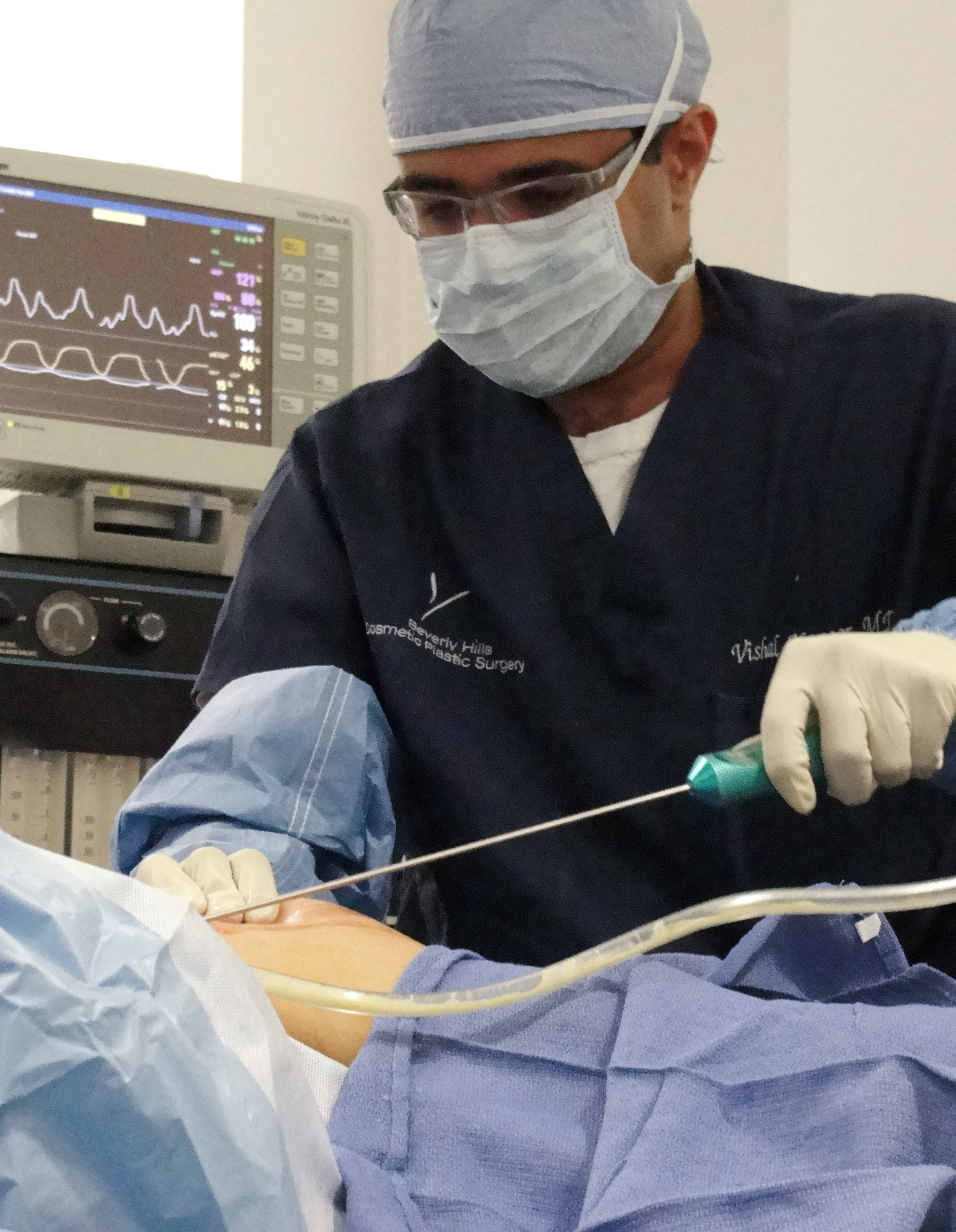 Plastic Surgeon Vishal Kapoor, MD performing liposuction surgery on female patient using the super-wet technique.